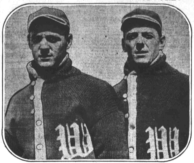 Brothers and professional baseball player Horace (left) and Clyde Milan (right)